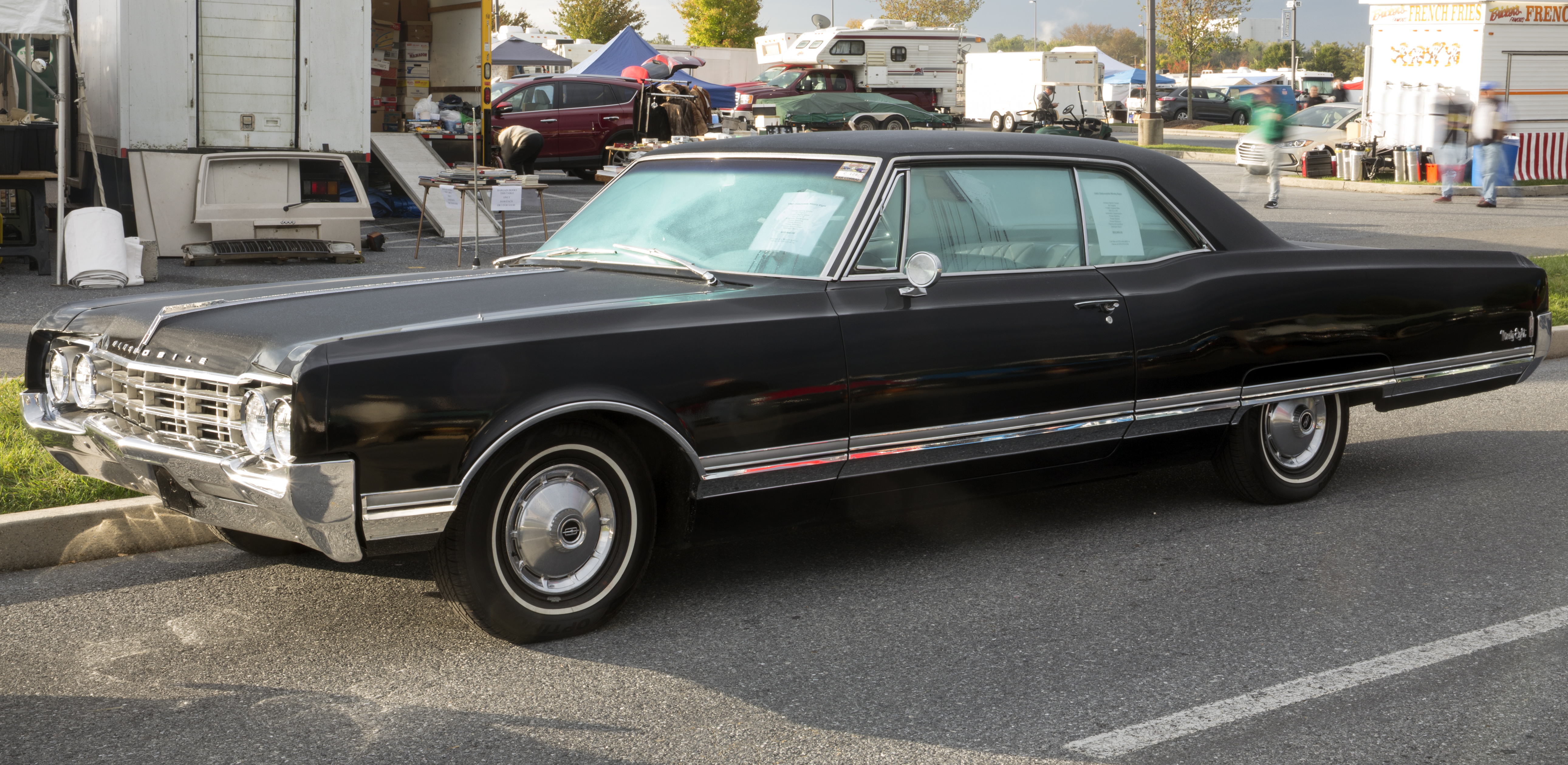 A 1963 Oldsmobile Ninety-Eight Holiday Sports Coupe offered for sale at Hershey 2019.